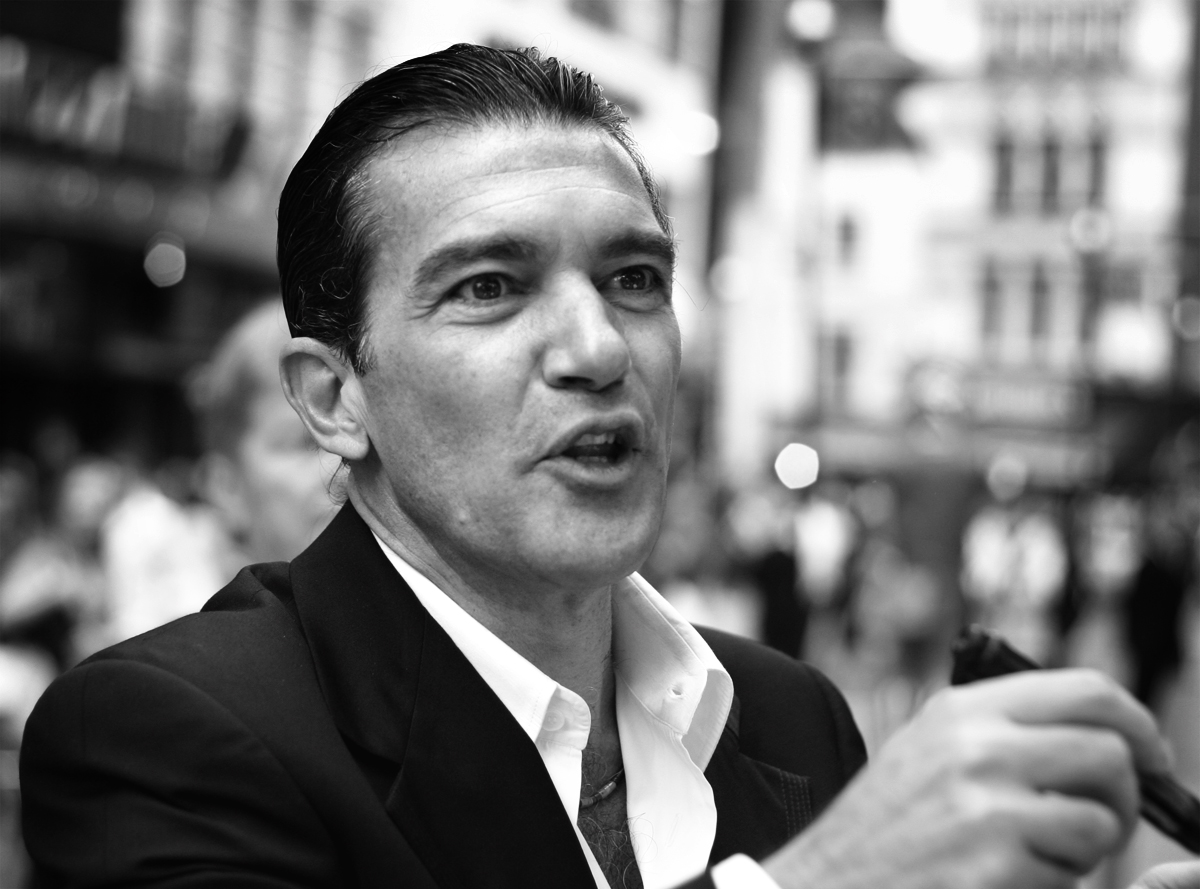 Antonio Banderas at the Shrek the Third London premiere